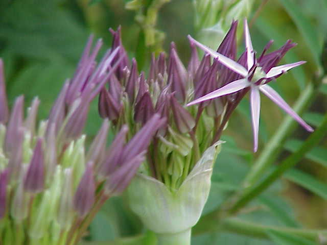 Species: Allium christophii Family: Alliaceae Image No. 1